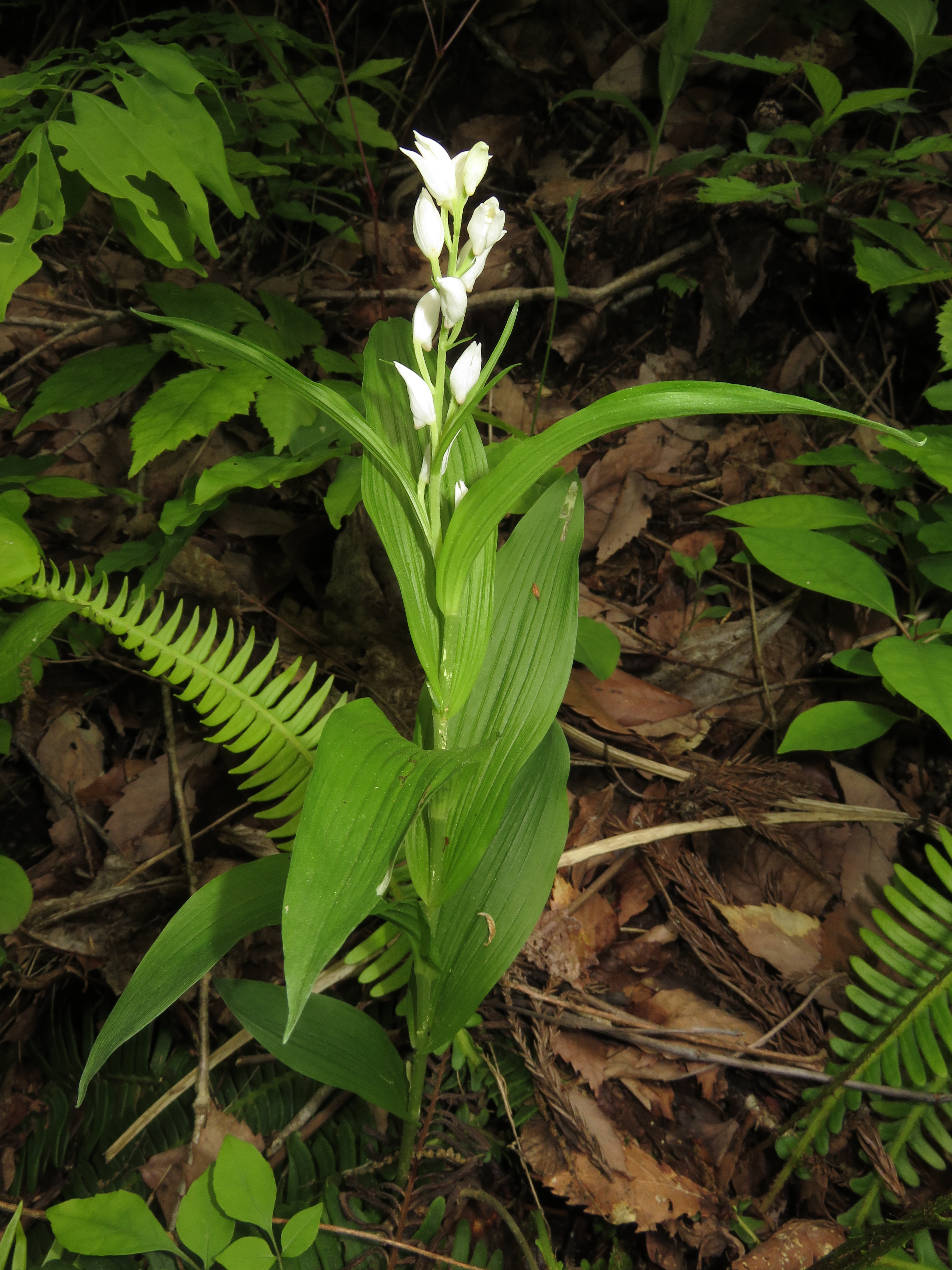 Cephalanthera longibracteata, Aizu area, Fukushima pref., Japan